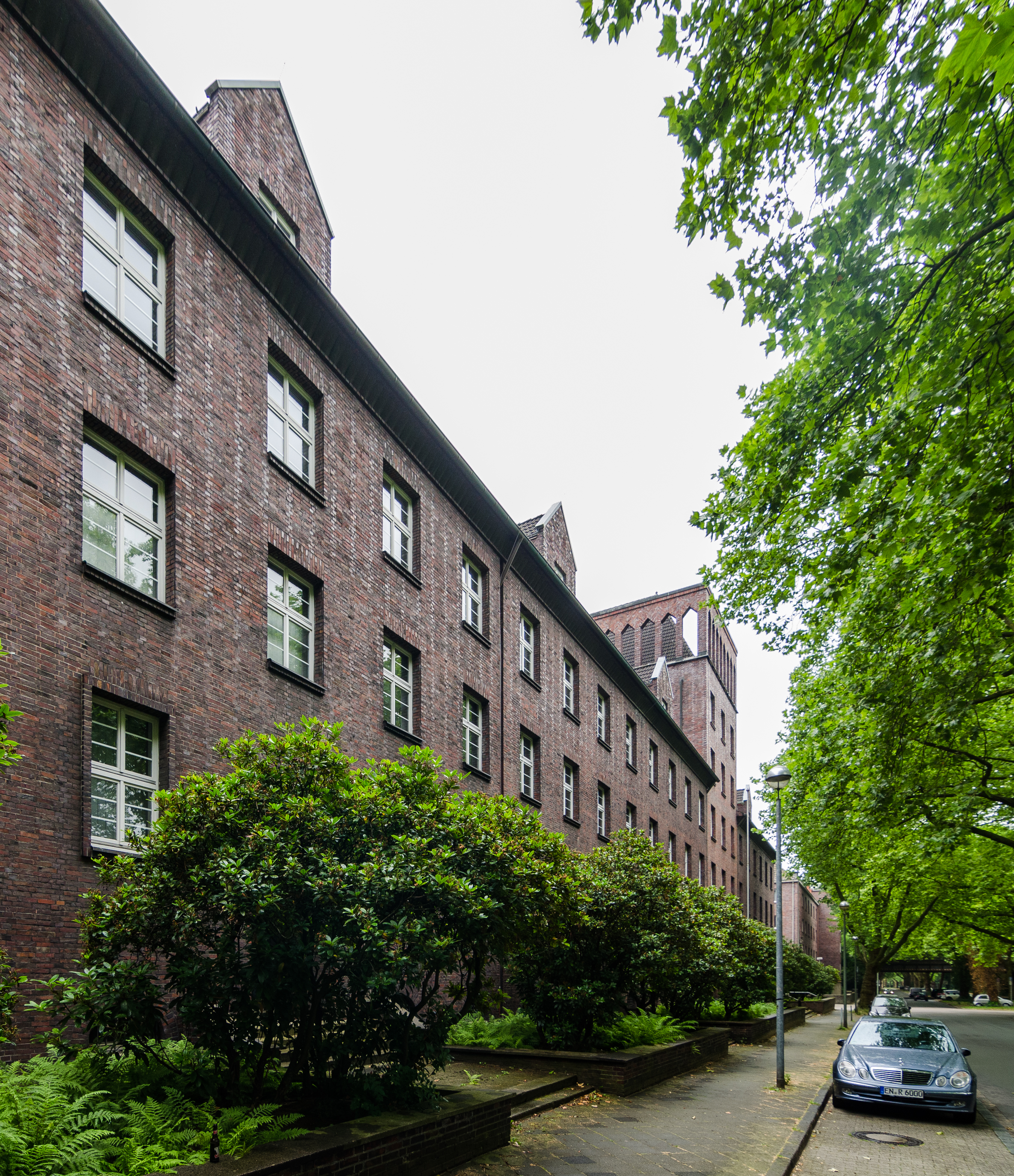 Gelsenkirchen (North Rhine-Westphalia, Germany) – old town – former tax office of the southern district